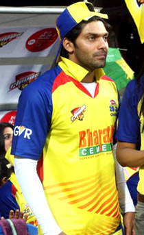 Sameera Reddy seen with Arya watchingSameera Reddy spotted at